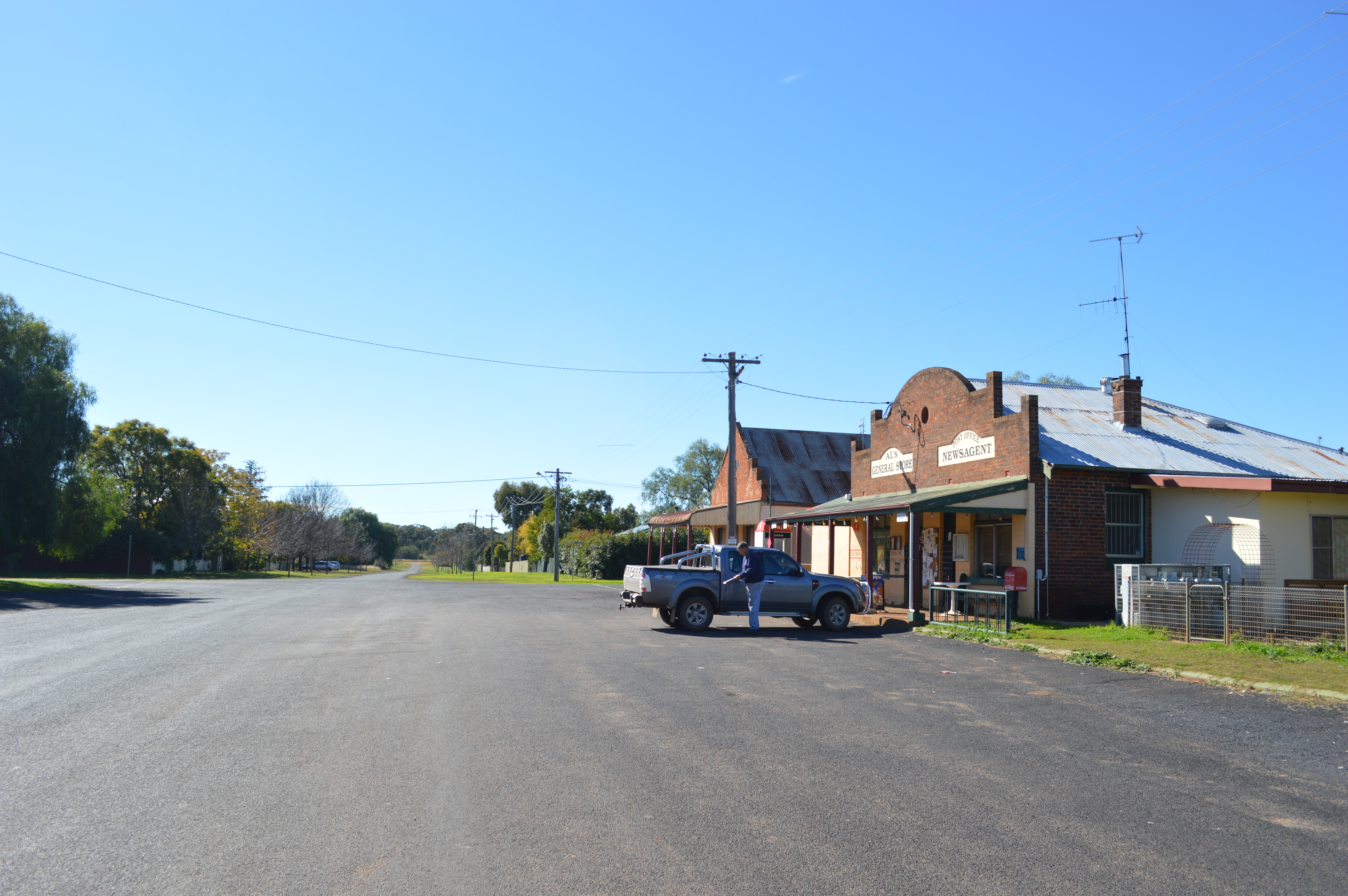 Gundong Street in Wongarbon, New South Wales